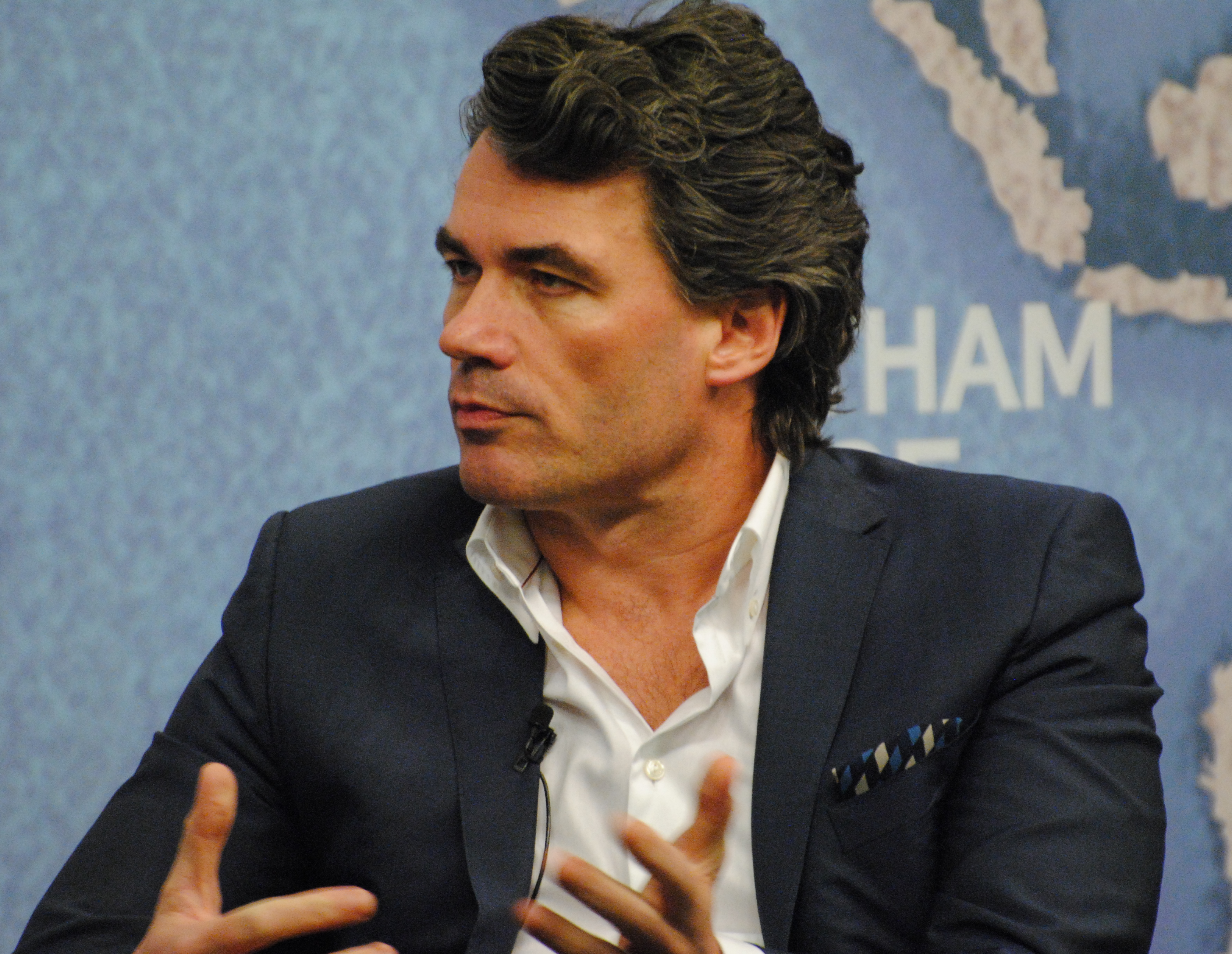 Corporate Leaders Series, 3 March 2016, cht.hm/1Rt7hQz